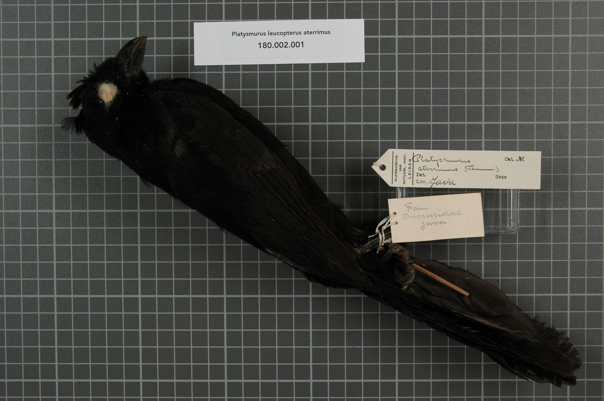 Platysmurus leucopterus aterrimus (Temminck, 1825)